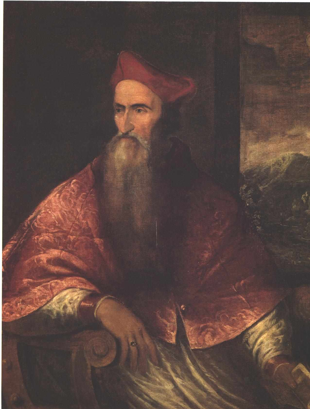 Portrait of the cardinal Pietro Bembo (1470-1547)